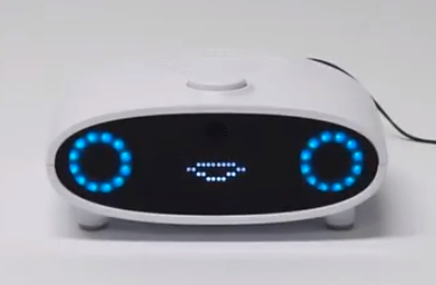 Mycroft Mark I